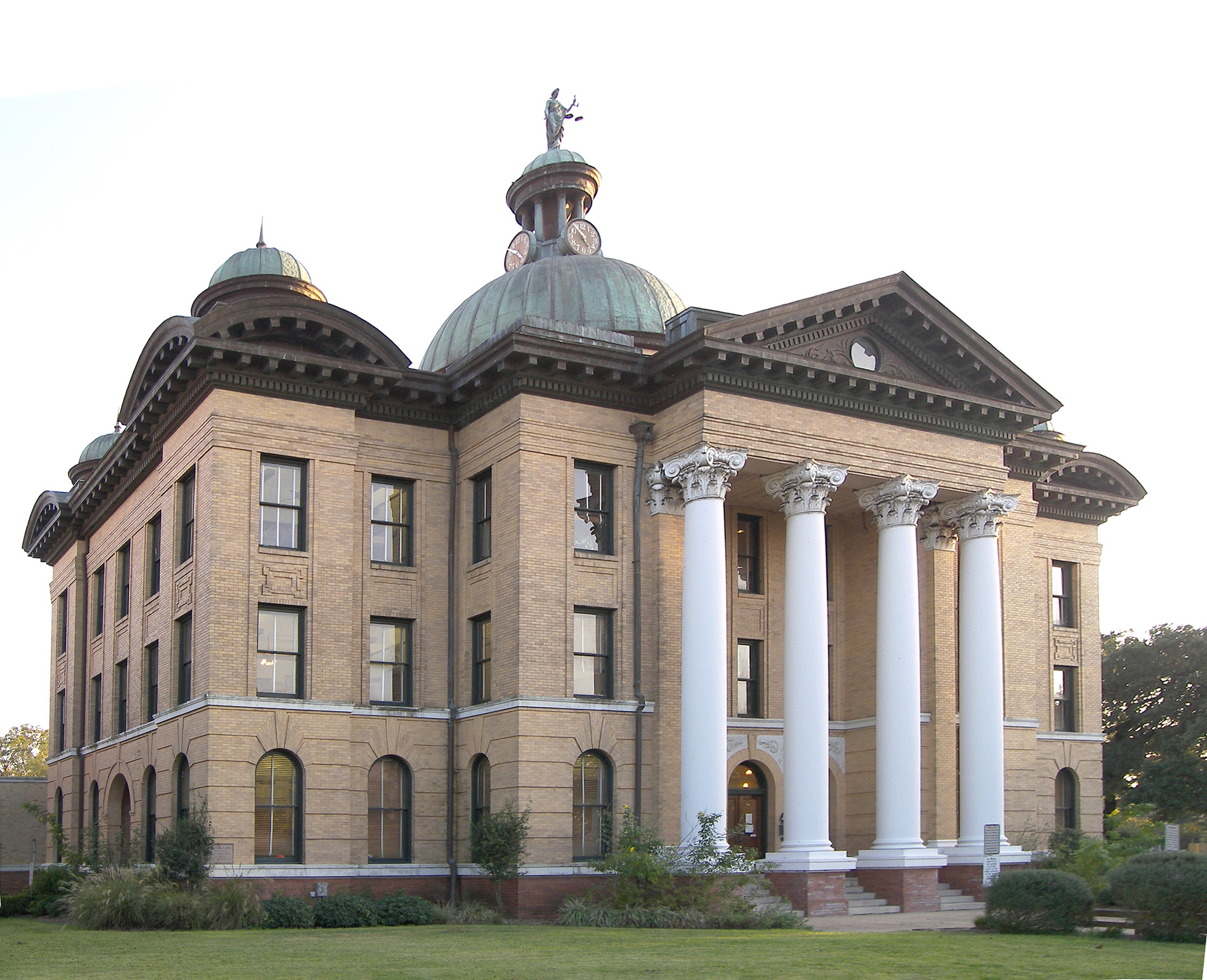 The Fort Bend County, Texas courthouse located in Richmond, Texas, United States. The Beaux-Arts style building was dedicated in 1909. The courthouse was designated a Recorded Texas Historic Landmark in 1980 and was listed on the National Register of Historic Places on March 13, 1980.